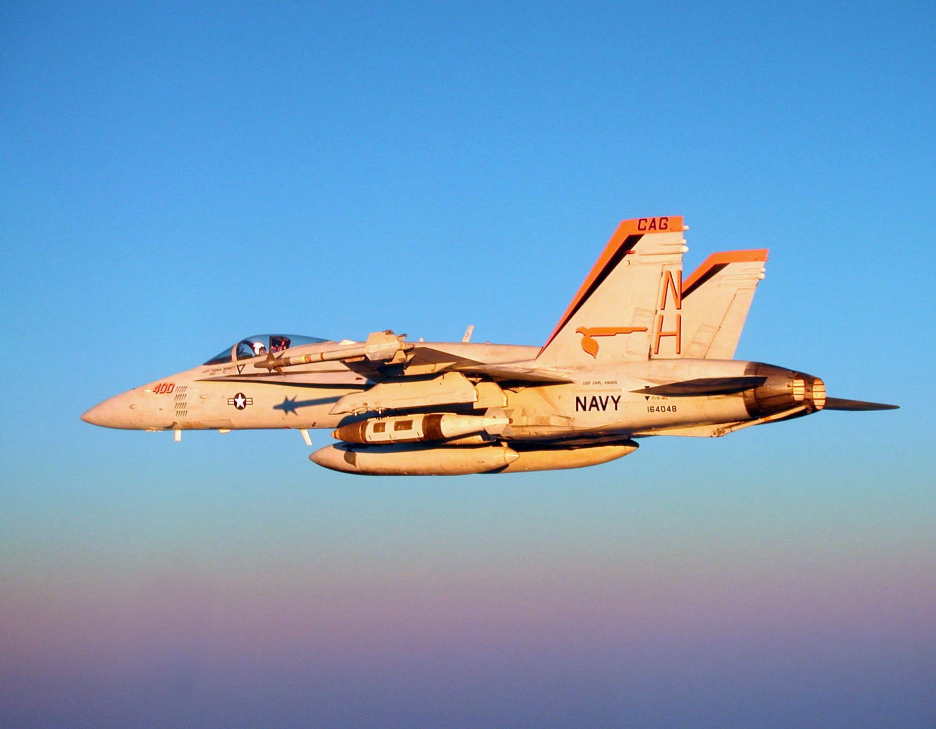 A U.S. Navy McDonnell Douglas F/A-18C “Hornet (BuNo 164048) from the "Mighty Shrikes" of Strike Fighter Squadron 94 (VFA-94) carries a strike payload consisting of an AIM-9 "Sidewinder" missile and JDAM (Joint Direct Attack Munition) ordnance. The USS Carl Vinson (CVN-70) and its Carrier Air Wing 11 (CVW-11) were conducting missions in support of Operation Enduring Freedom.